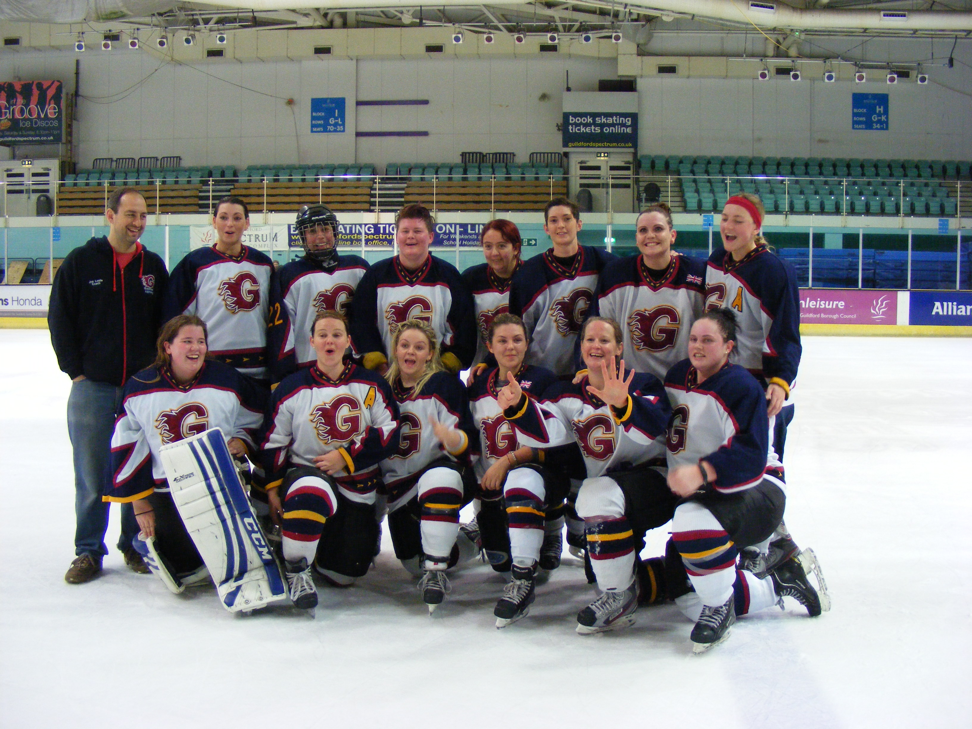 Guildford Lightning Team Photo 2014/2015